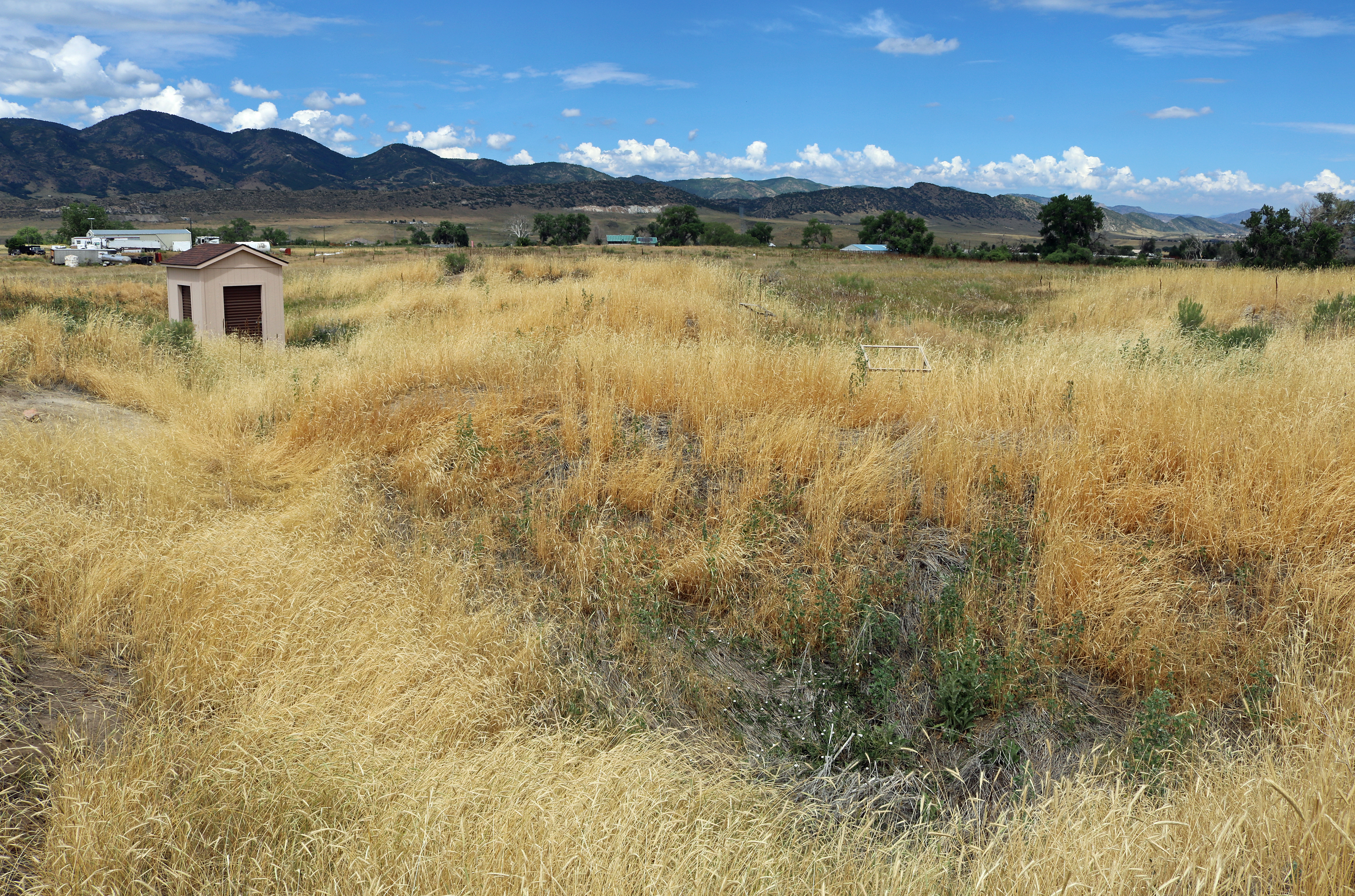 The Lamb Spring archaeological site in Douglas County, Colorado. The spring itself went dry in 1970.